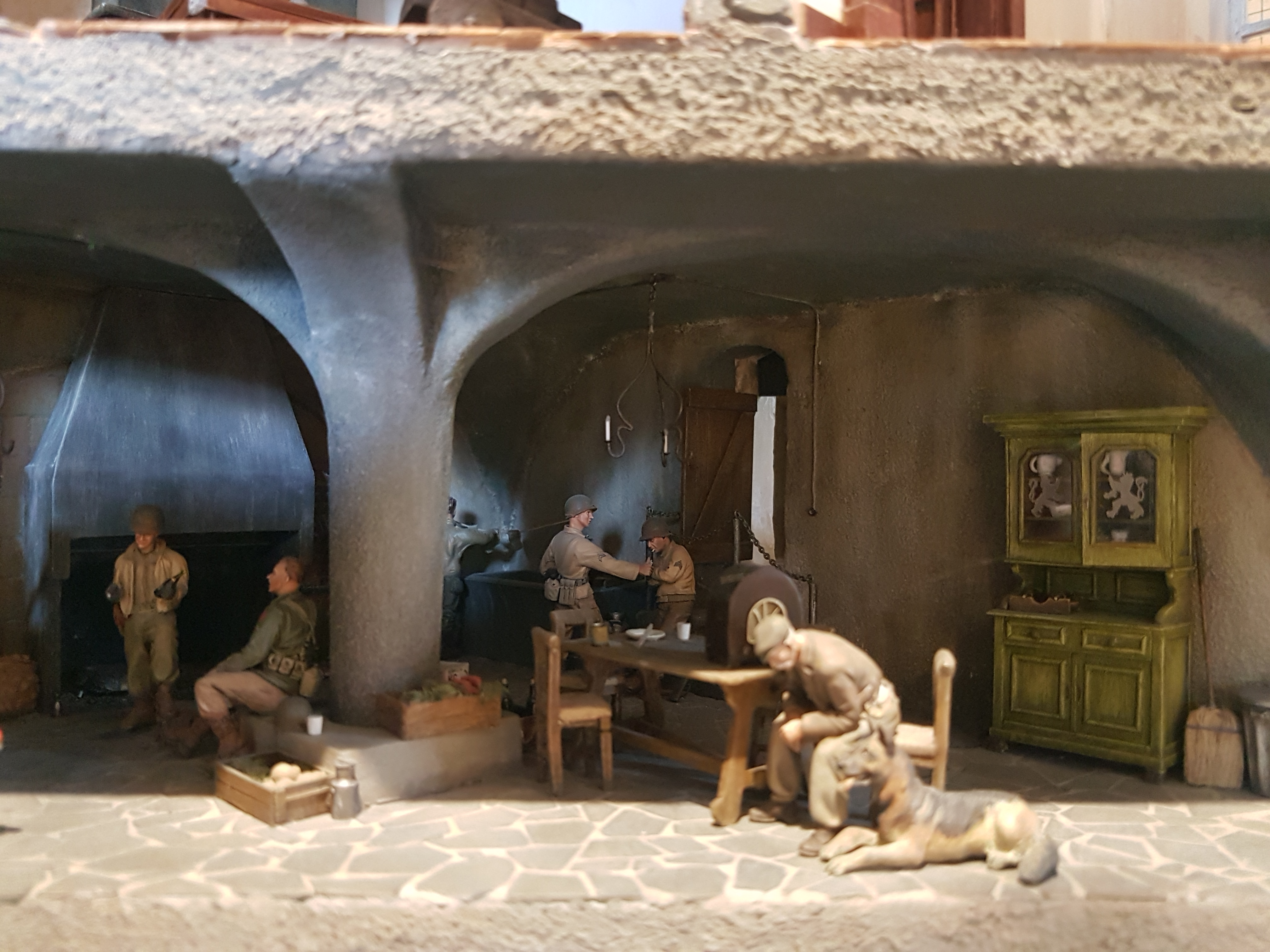 Museum of the scale models of Luxembourg’s fortified castles in the scale 1: 100. Details Castle Clervaux.